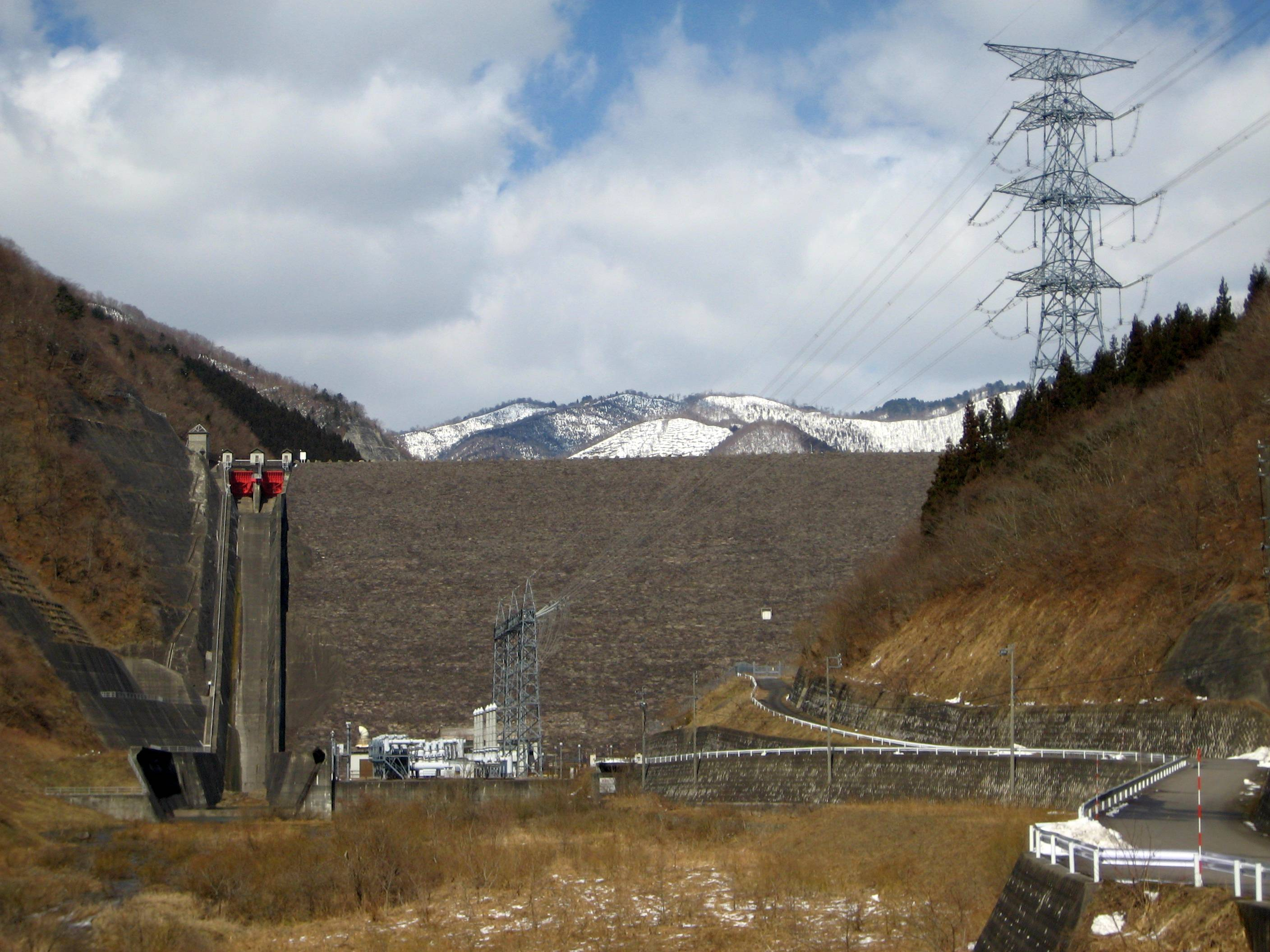 Kamiōsu Dam (上大須ダム) is a hydroelectric dam in Motosu city, Gifu prefecture, Japan.